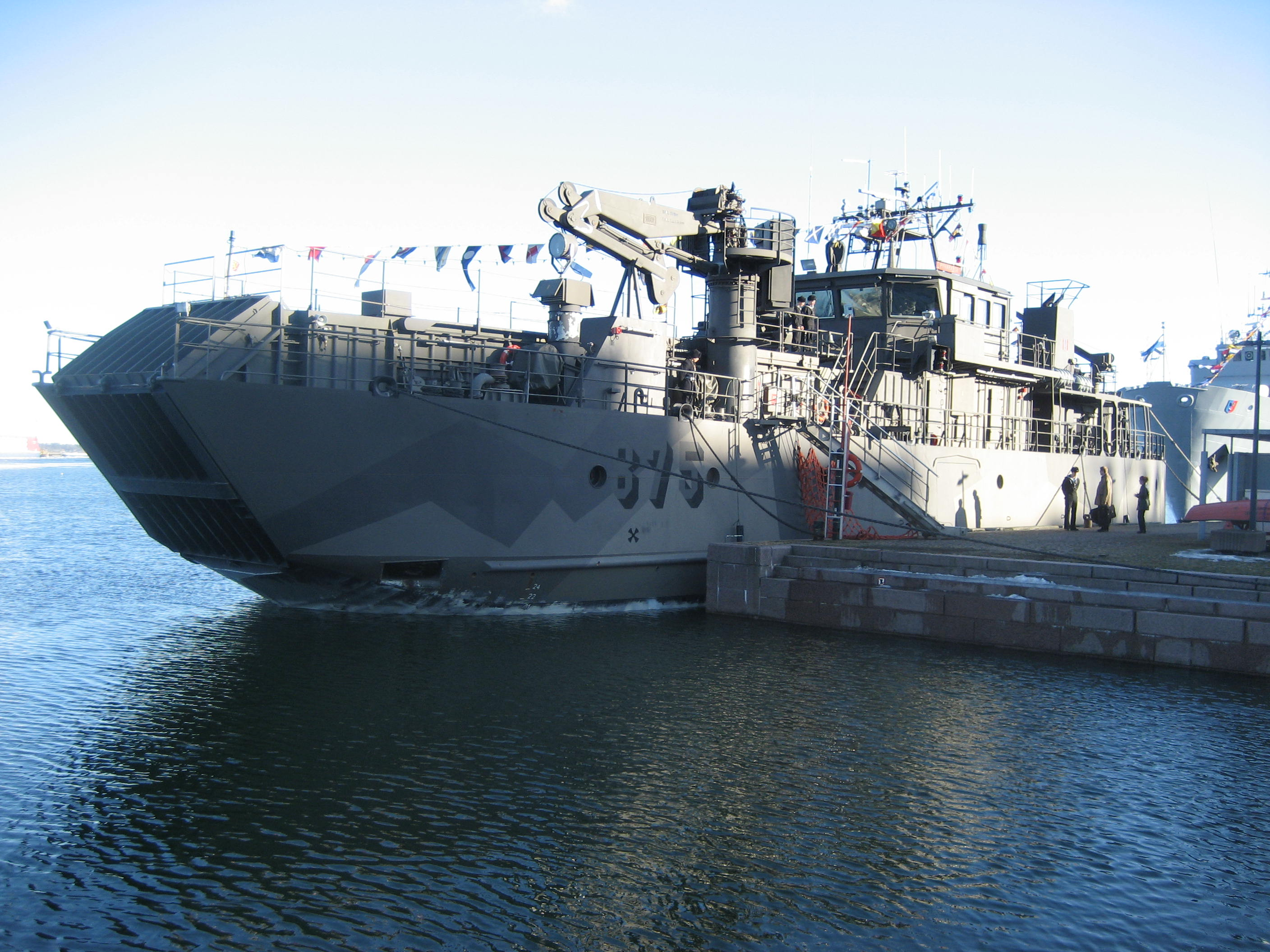 Minelayer Pyhäranta in Helsinki harbour. In the background appears Estonian flagship vessel ENS Admiral Pitka.